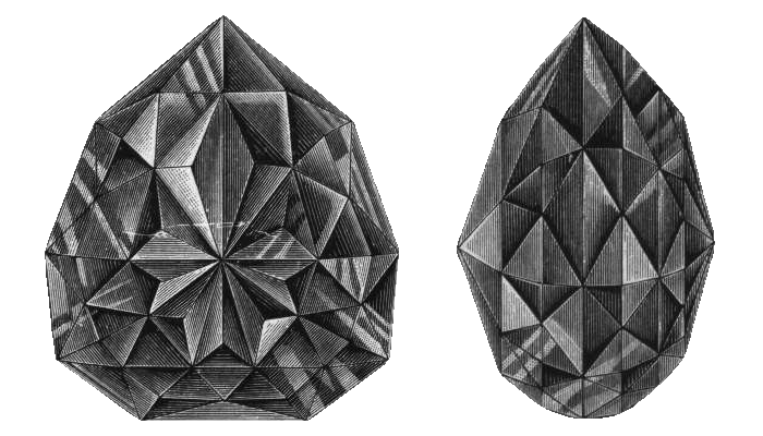 Florentine Diamond